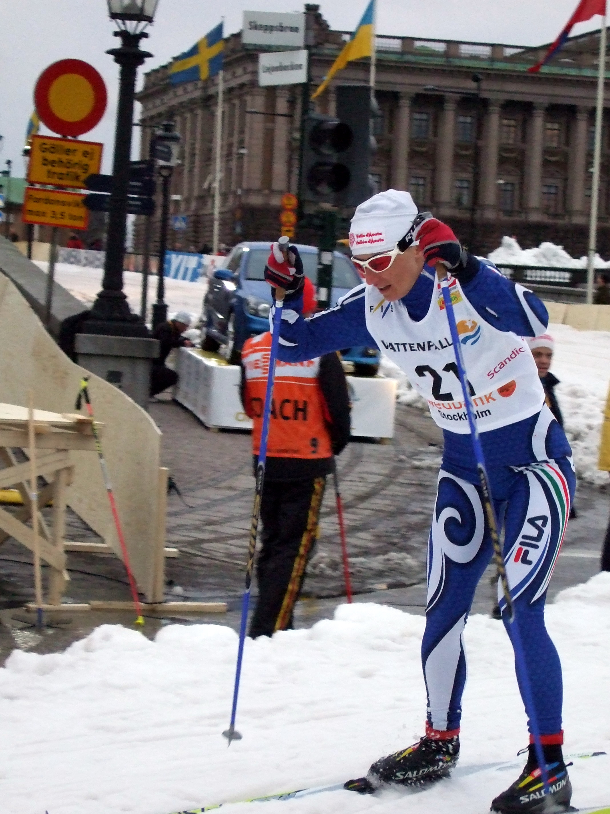 Arianna Follis at the Royal Castle World Cup sprint in Stockholm, Sweden